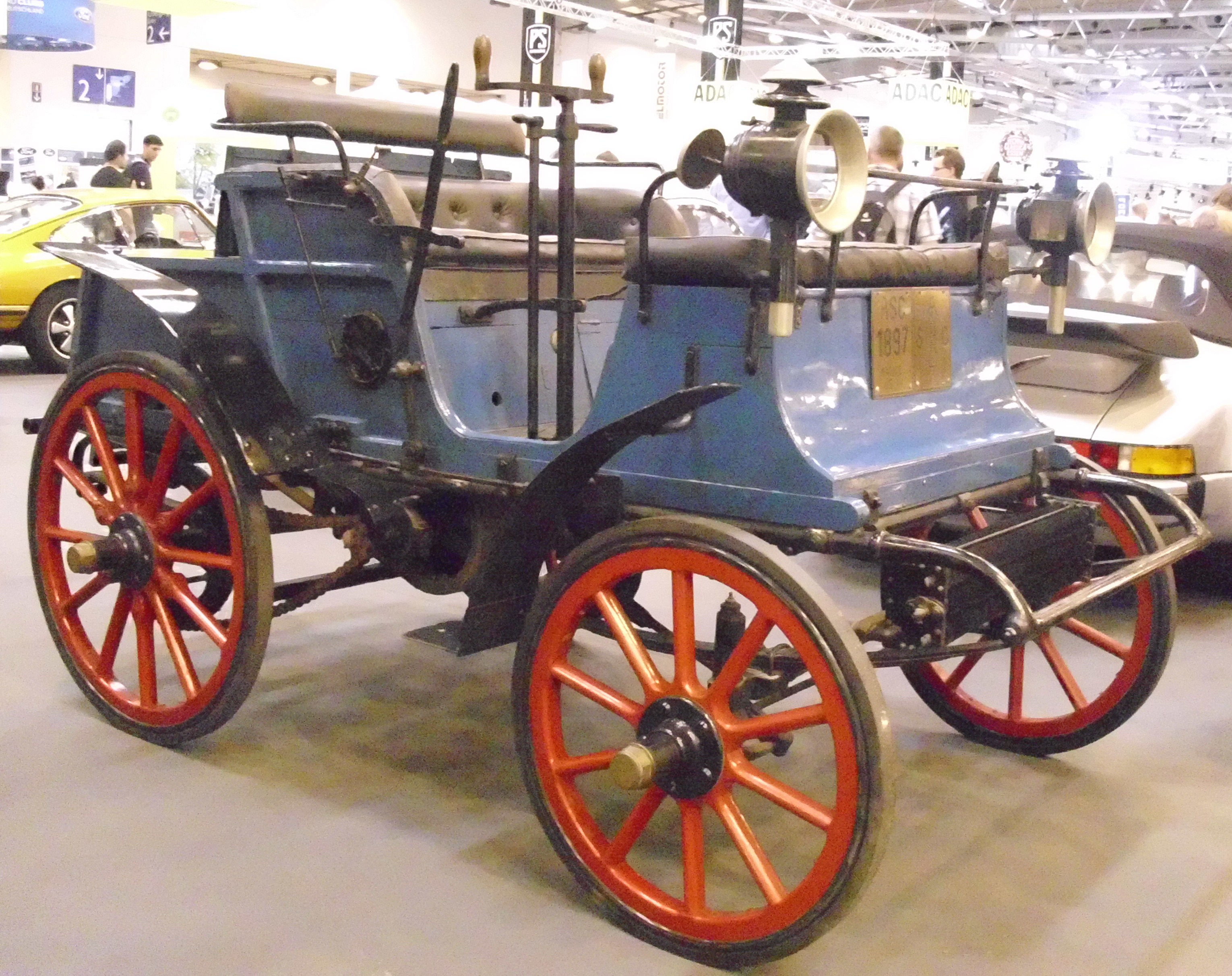 Malicet & Blin 4 CV 1897